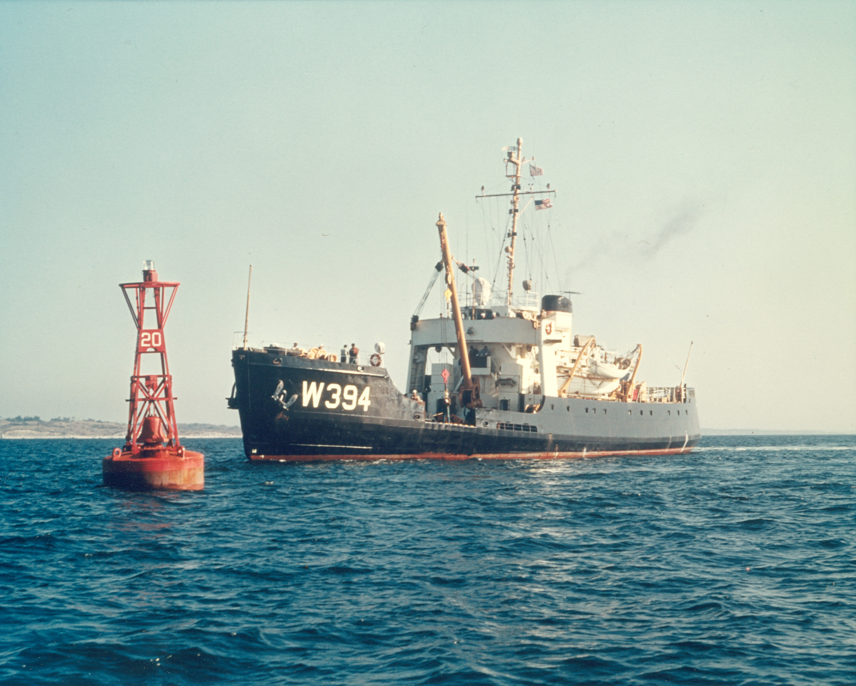 USCGC Hornbeam off Nantucket in 1963